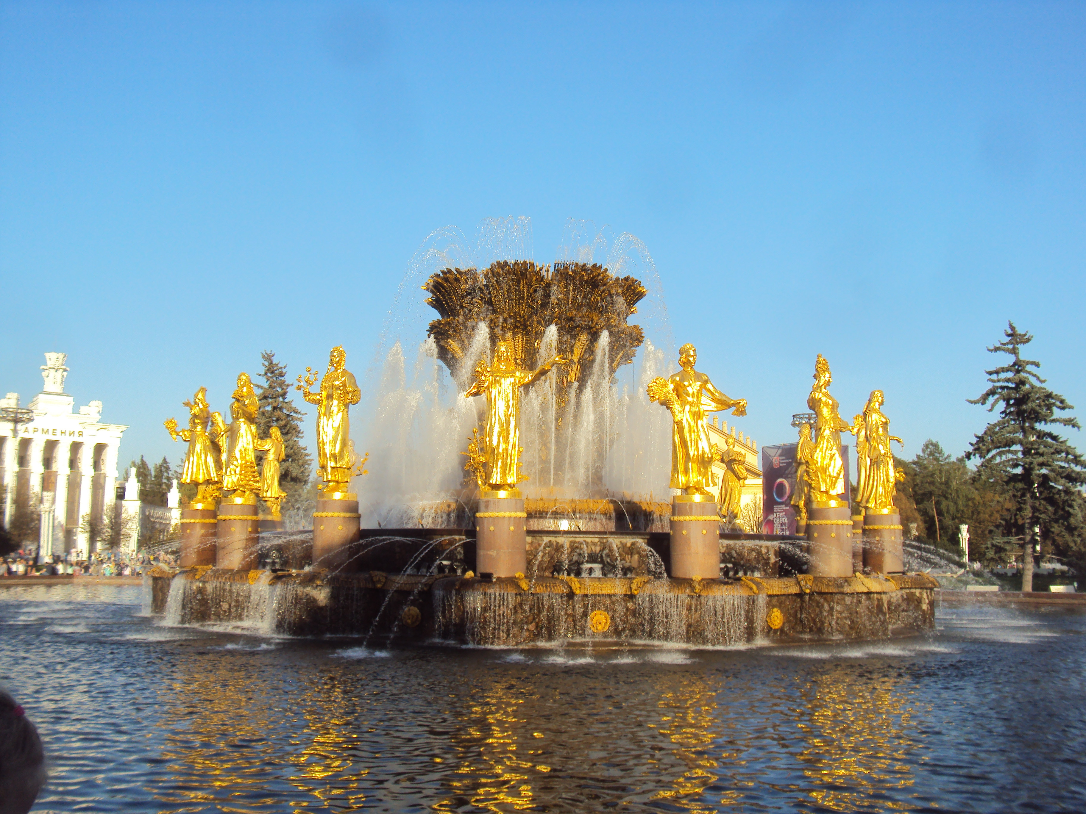 Fountain Friendship of peoples